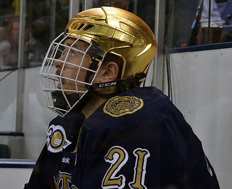 UMass Lowell vs. Notre Dame (Sat)